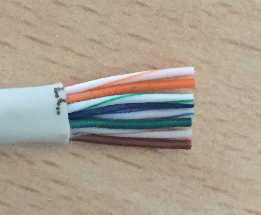 Do it yourself. Make UTP (Unshielded Twisted Pair) and connect RJ45 connector. Step 5: cut cables.